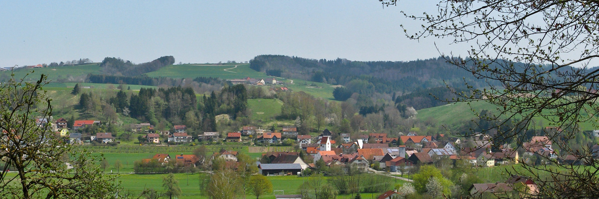 Nice look at Billafingen in spring